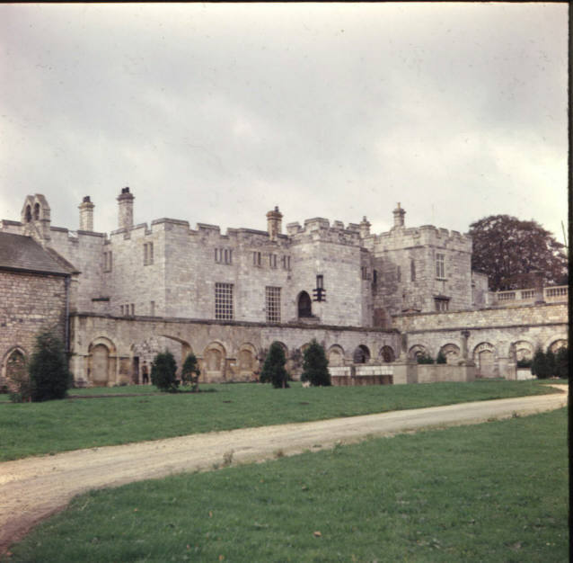 Hazlewood Castle This was the home of the Vavasour family, and is now used as a wedding centre and hotel.